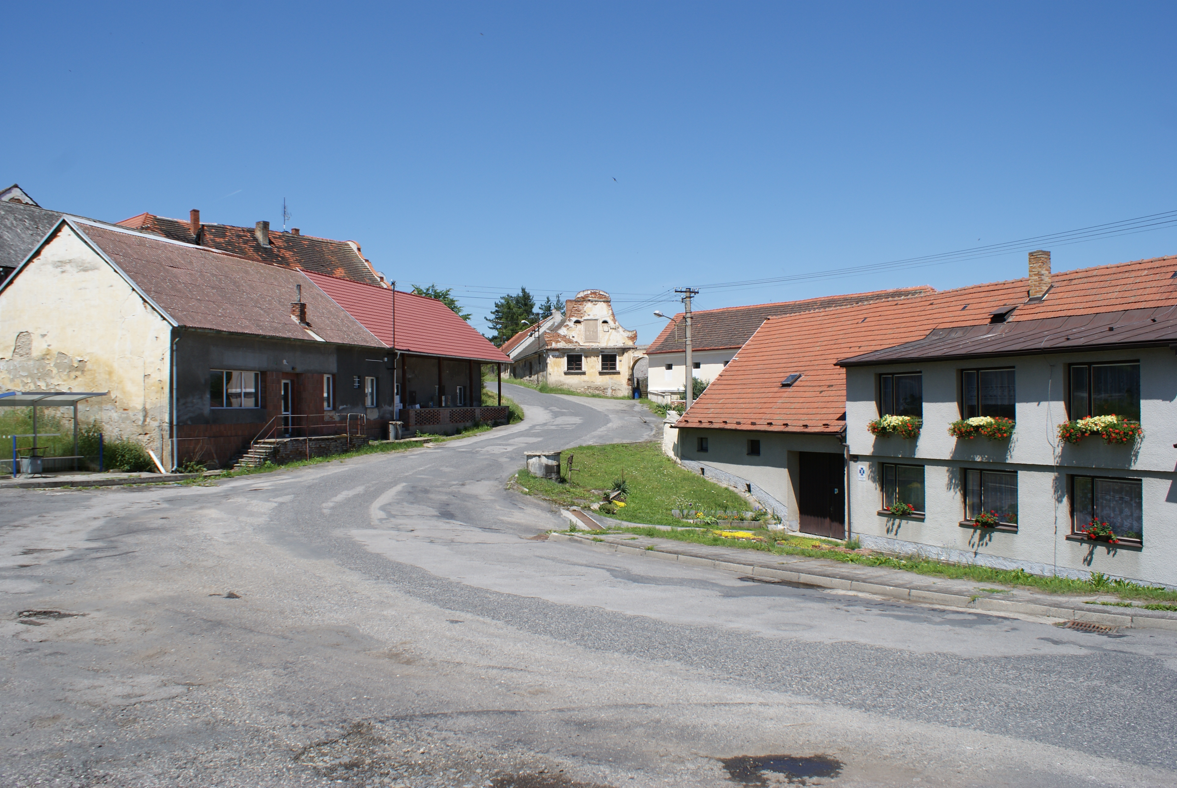 Modlešovice, a village in Strakonice district, Czech Republic, the village common.